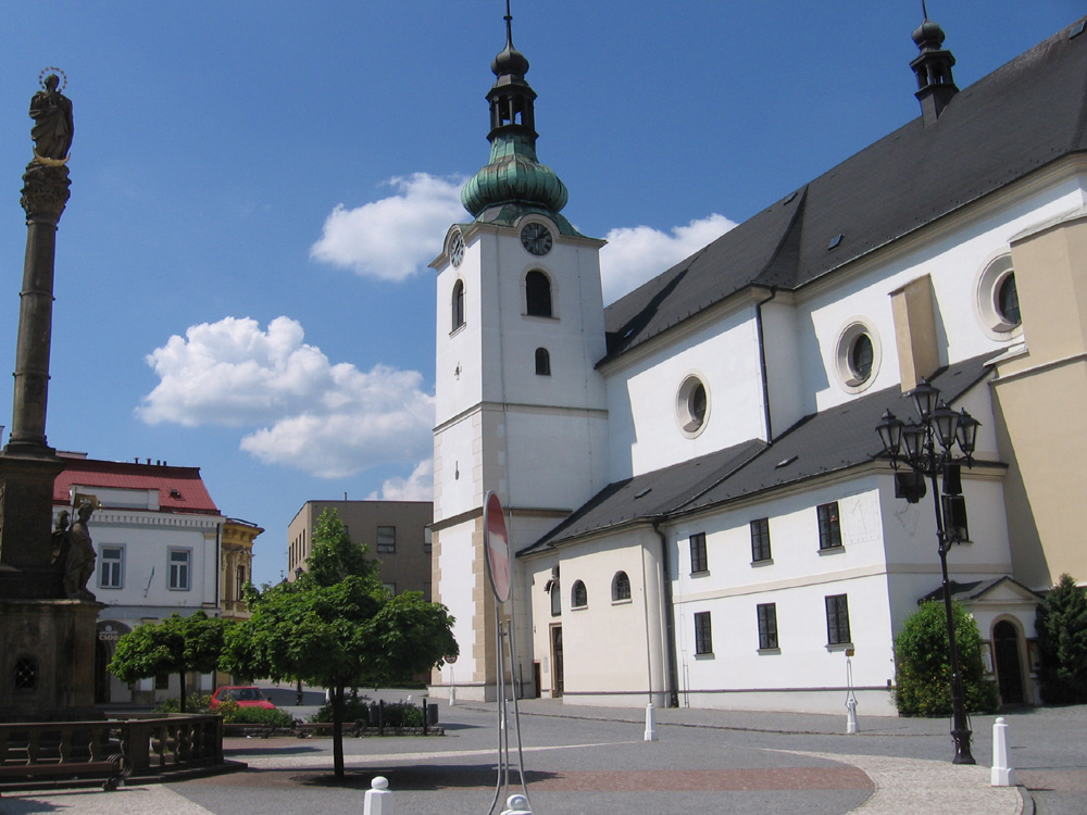 Church of the Visitation in Svitavy, Czech Republic